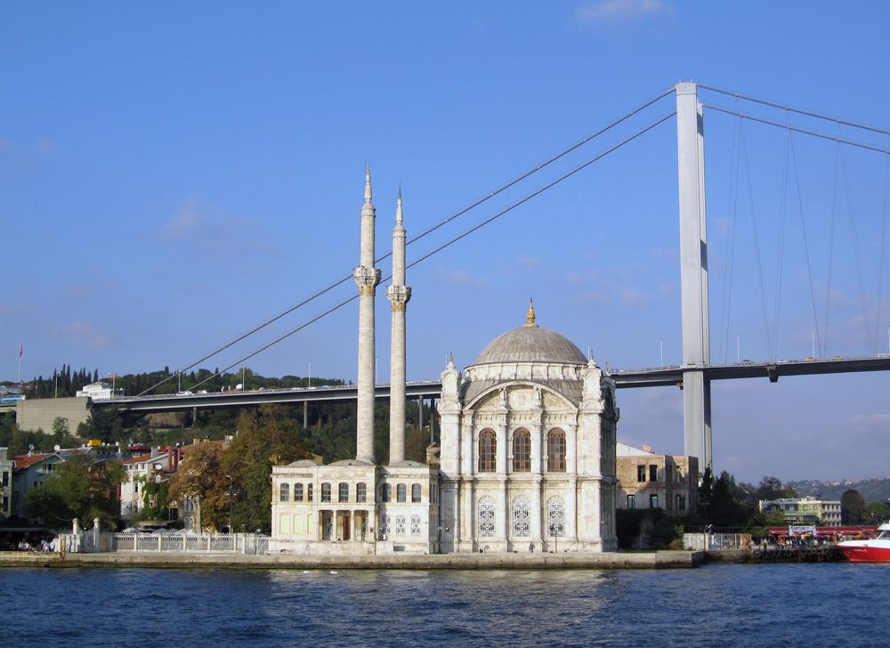 Ortaköy Mosque (officially the Büyük Mecidiye Camii) in Beşiktaş, Istanbul, Turkey.